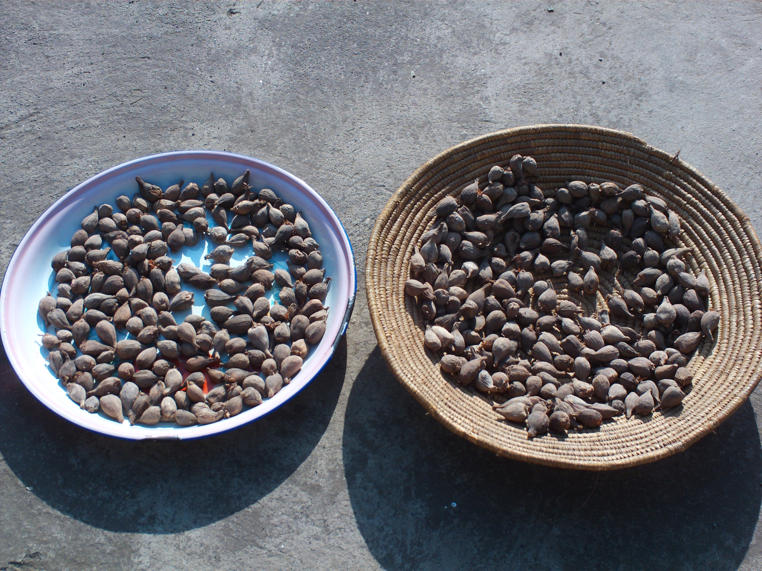 Whole kororima. The ground seed from this dried fruit is used as an ingredient in berbere. (Shashamane, Ethiopia)